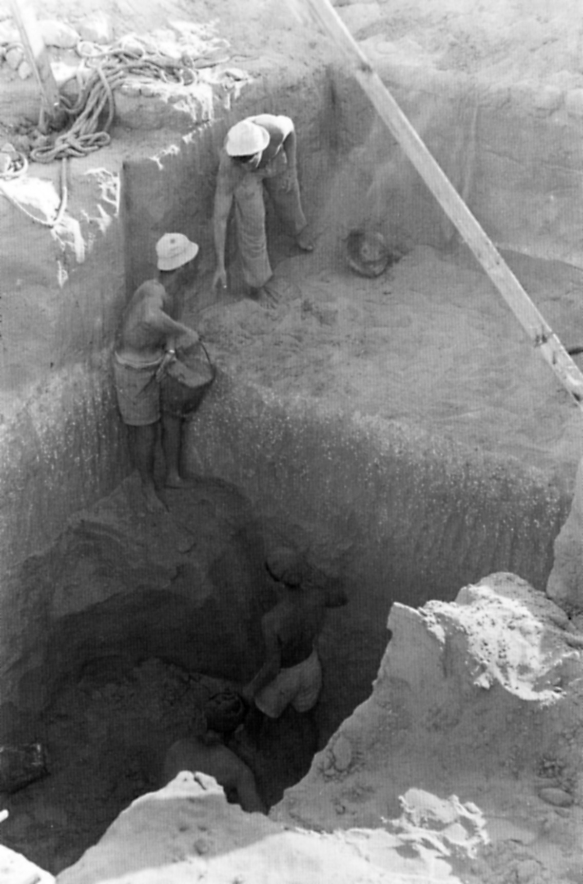 Members of kibbutz Nirim prepare fortifications.